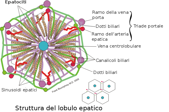 Schematic diagram showing basic structure of Hepatic (Liver) lobule.